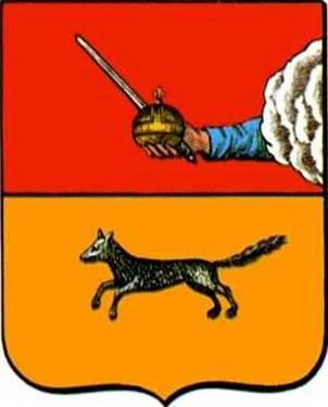 Historic coat of arms of Totma (1781)